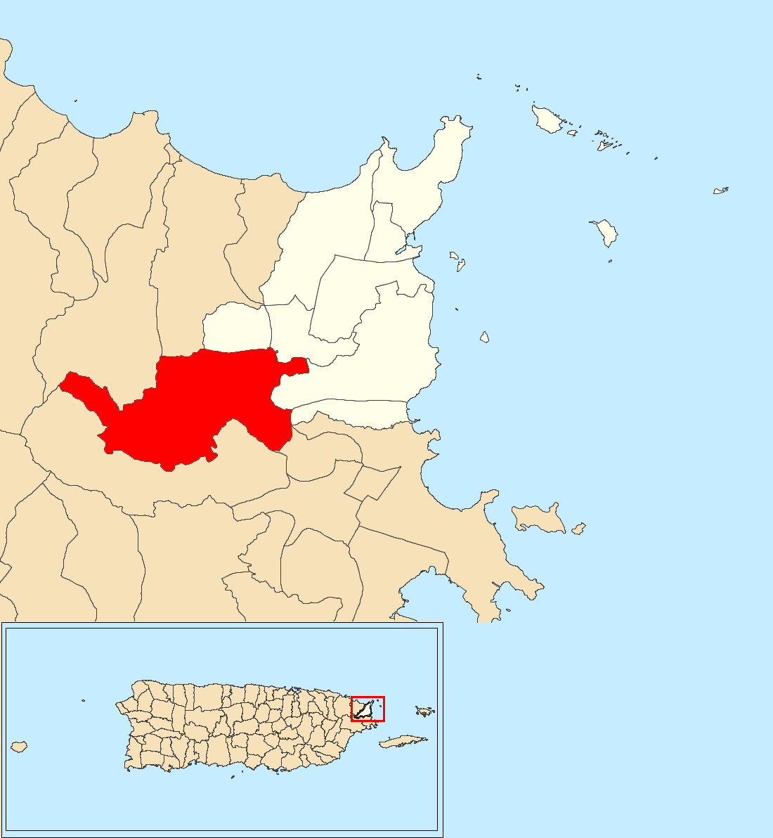 Río Arriba, Fajardo, Puerto Rico locator map